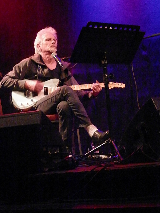 Johnny Dowd, Live in Krefeld 2015